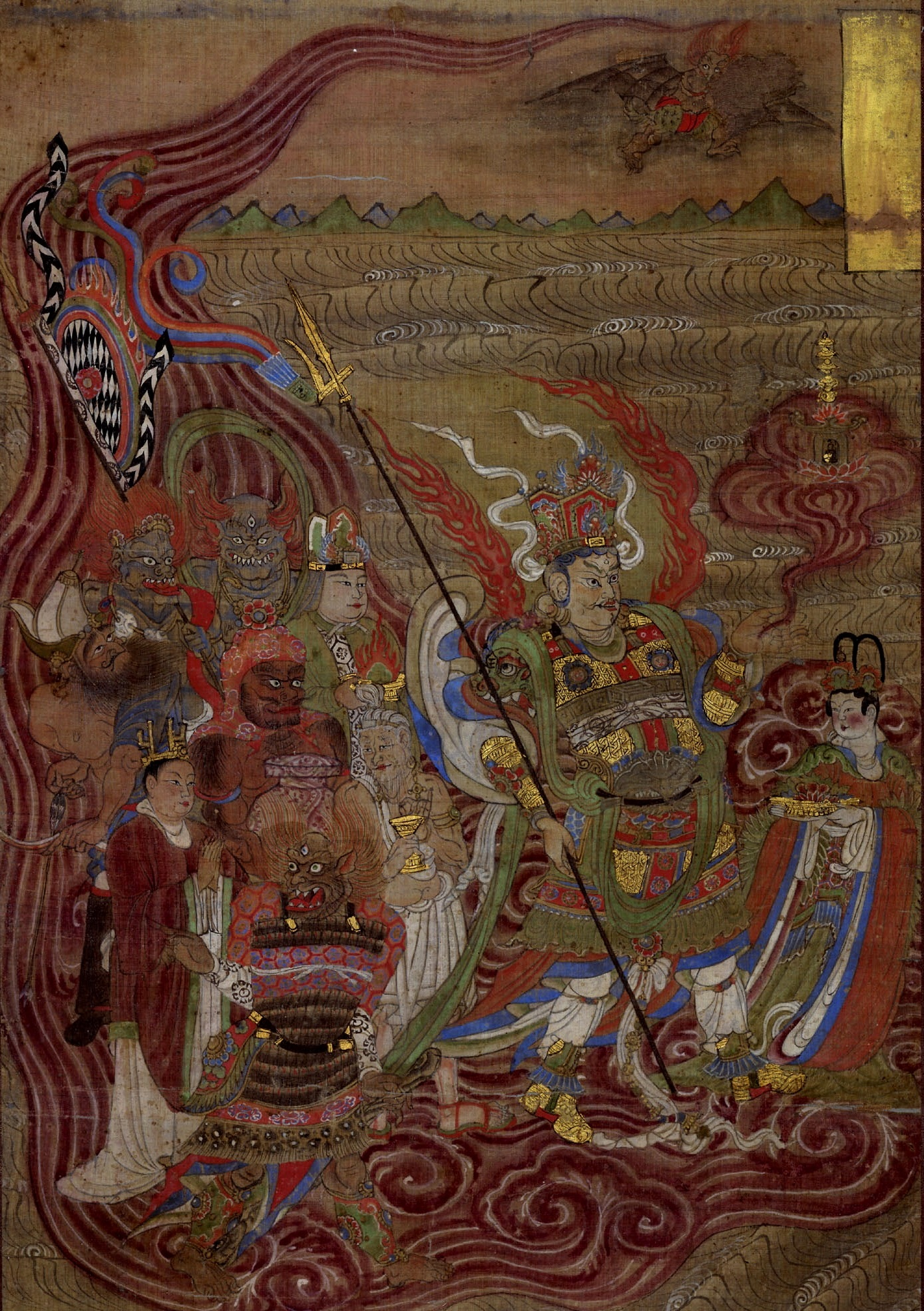 Vaishravana_riding_across_the_waters._61,8x54,7cm_From_Dunhuang,_Cave17._Five_Dynasties,_mid-10th_century_AD._British_Museum.